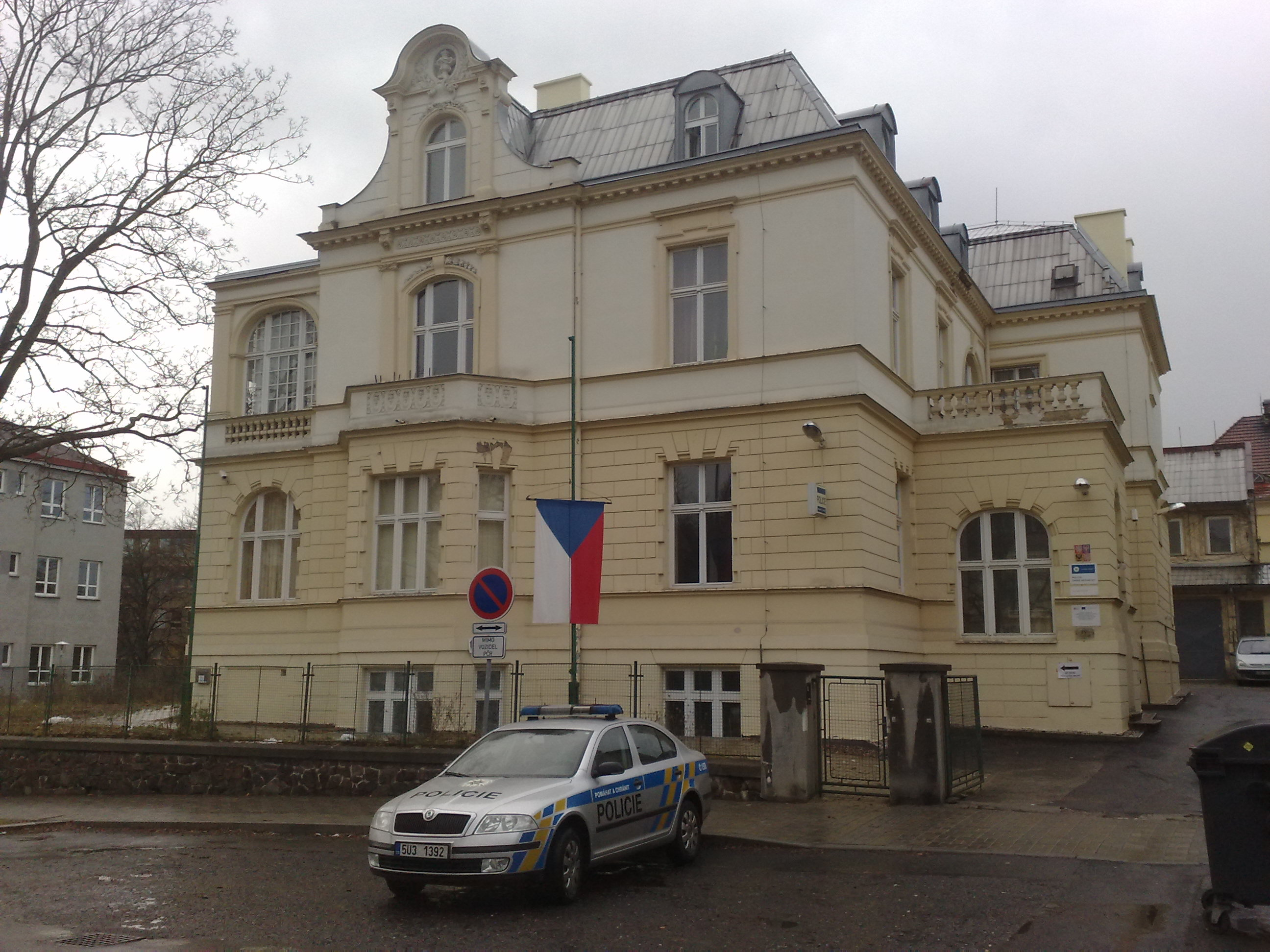 Police station in Teplice on the day of state mourning; the flag is half-staff after the death of the former president Václav Havel